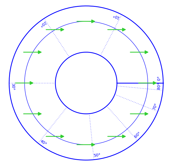 A paper model to understand Foucault pendulum. Cut out the figure along the bold lines.